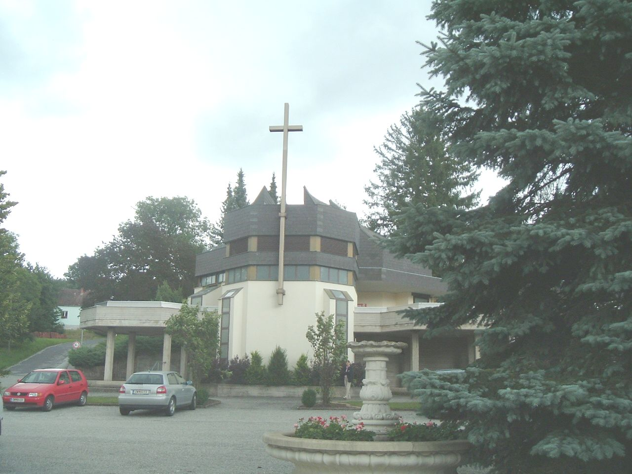 Kohfidisch, church